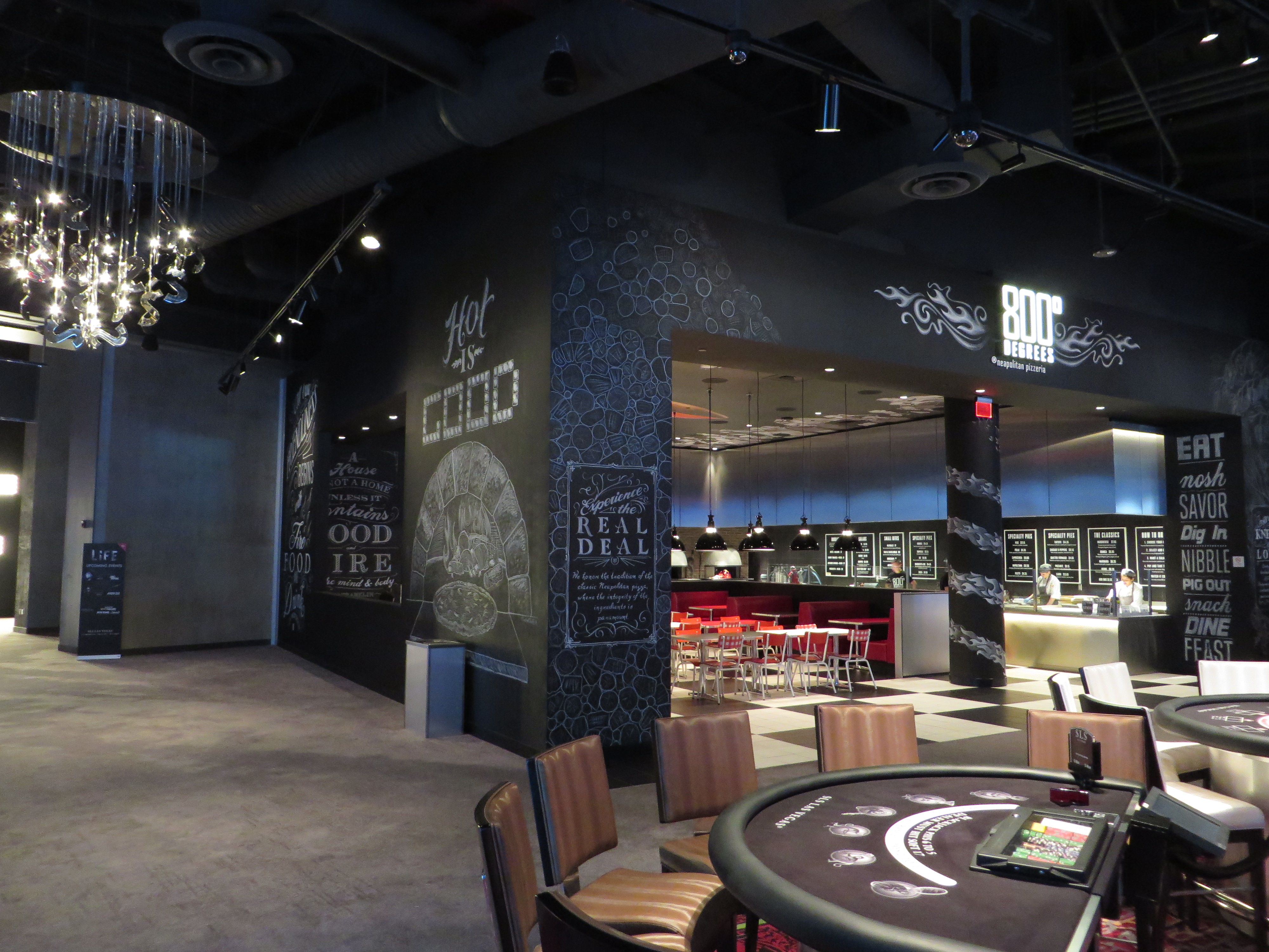 800 Degrees pizza restaurant at the SLS Las Vegas resort on the Las Vegas Strip.